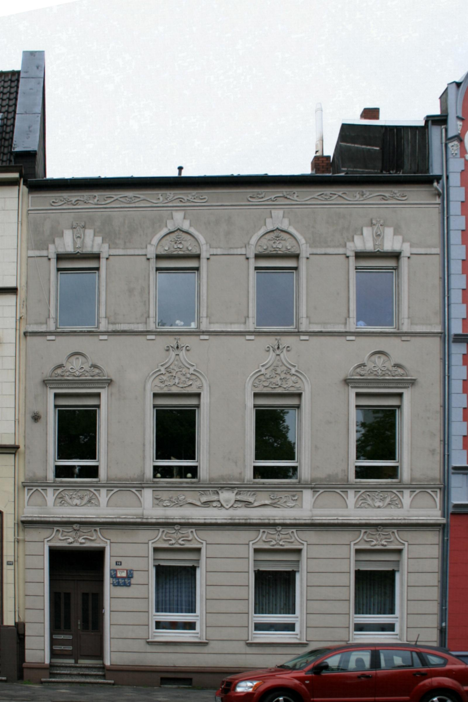 Cultural heritage monument No. V 011 in Mönchengladbach